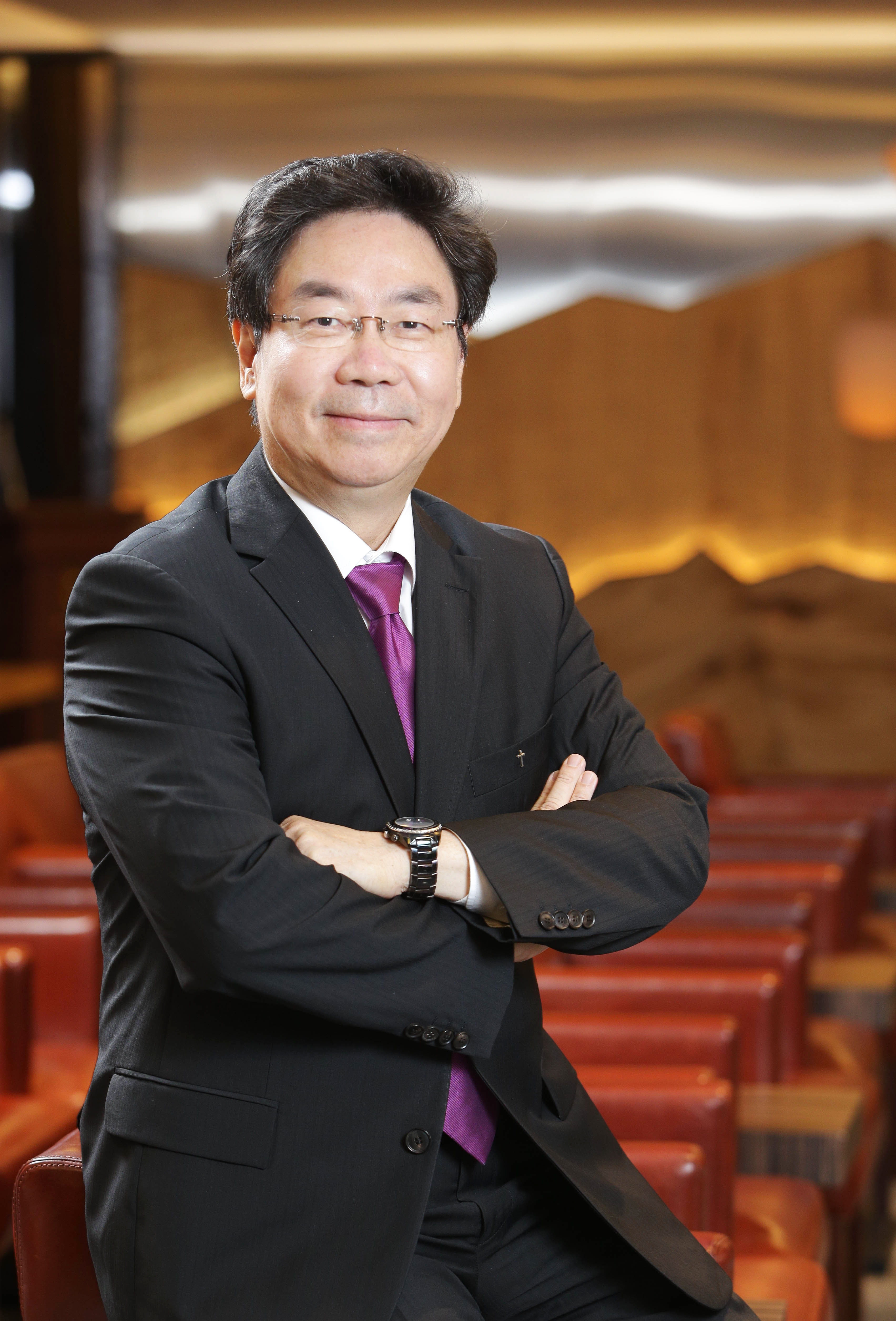 Chuang Suo-Hang as Vice Chairman of TAITRA